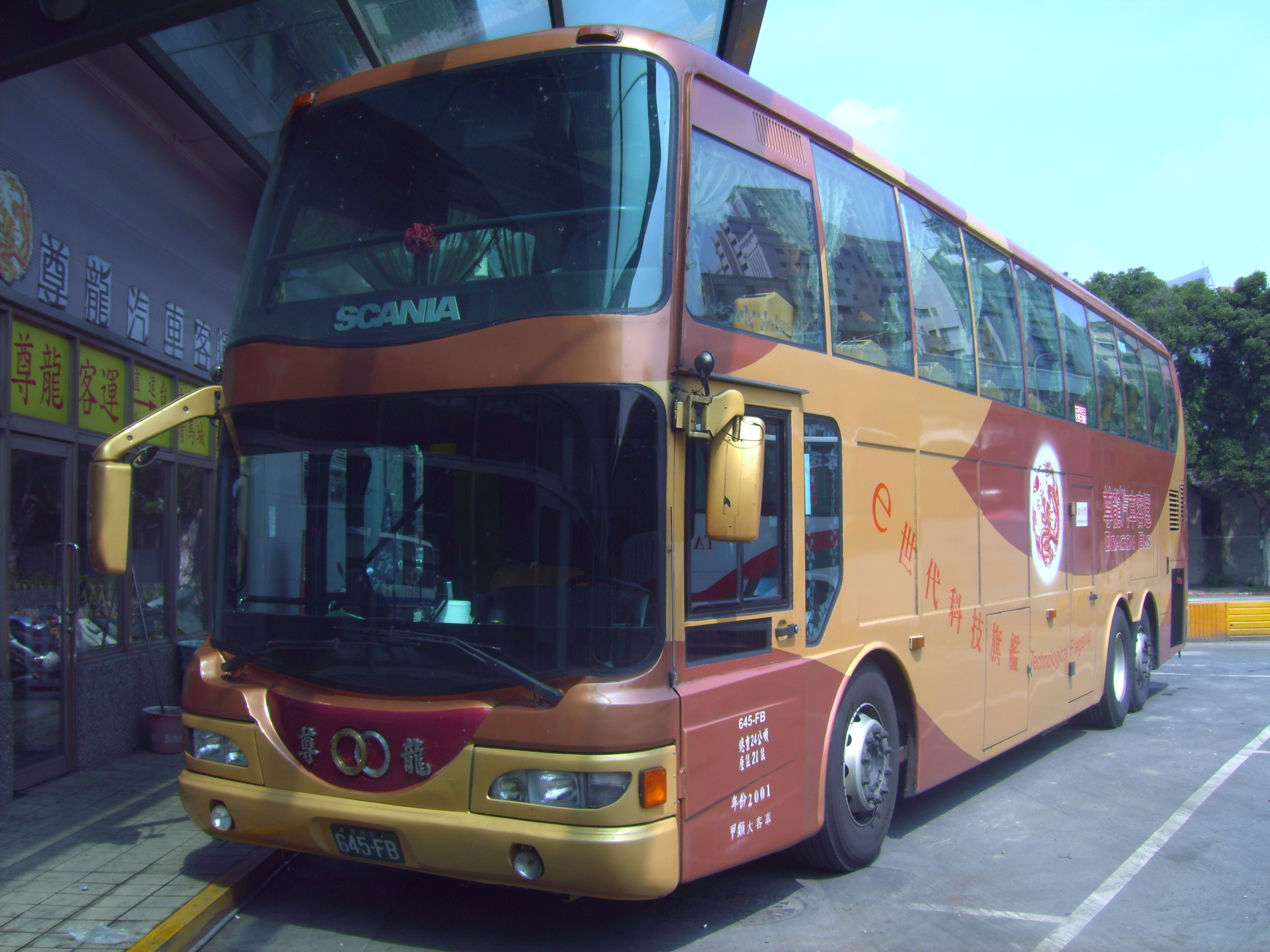 Dragon Bus Co., Ltd. operated freeway line service with SCANIA K114 series.